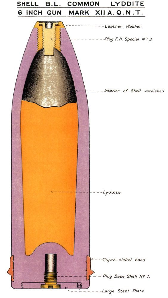 Diagram of British 6 inch Common Lyddite shell Mk XII A.Q.N.T. for Naval service. A denotes 4 c.r. head. Q denotes shell is of stronger design than previous Marks, for use in Mk XII gun. NT denotes shell is fitted with a night tracer in base. Shell has large base plate. Length 21.4 inches, diameter 5.97 inches, weight filled & fuzed 100 lbs. Total bursting charge 10 lbs 15 oz, which includes 5 drams TNT exploder. For use in the following guns : BL 6 inch Mk VII BL 6 inch Mk XI BL 6 inch Mk XII